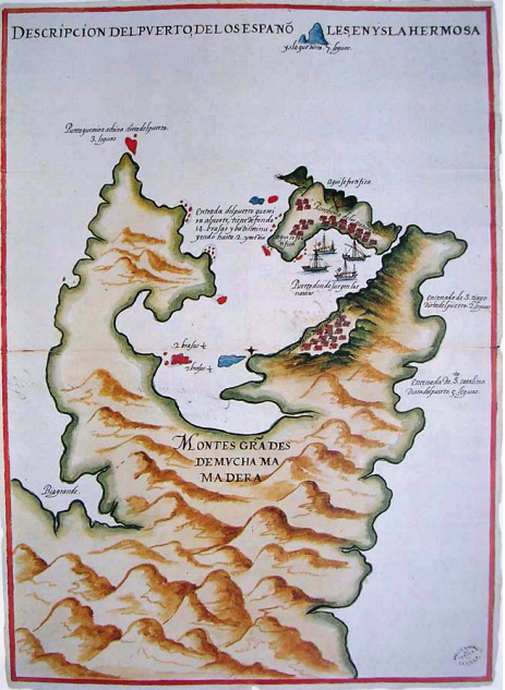 This maps shows the ports of Keelung and Tamsui harbor during the Spanish Formosa period (1626-1642) in Taiwan.